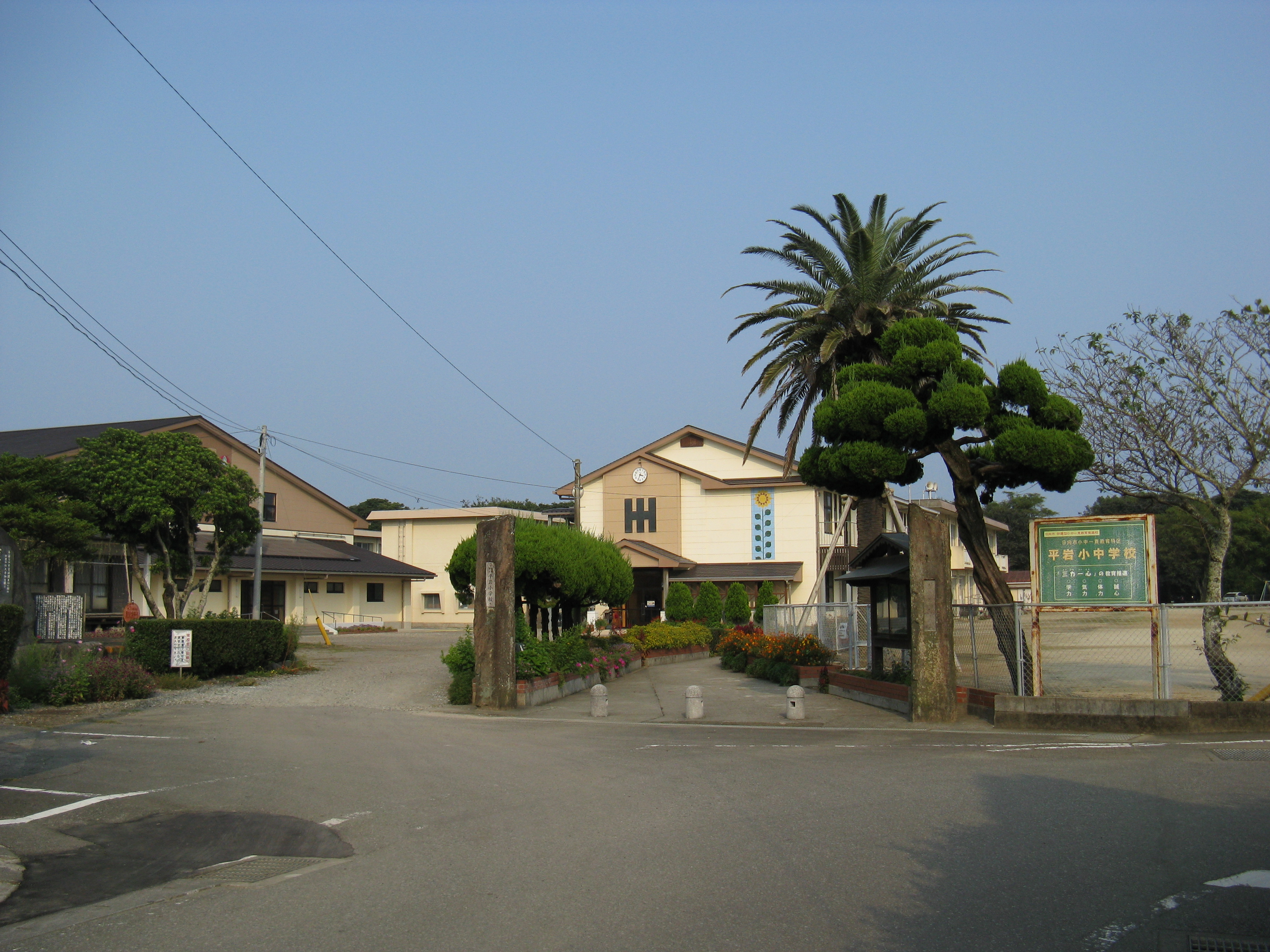 =Hyūga City Unified Elementary Through Junior High School Hiraiwa